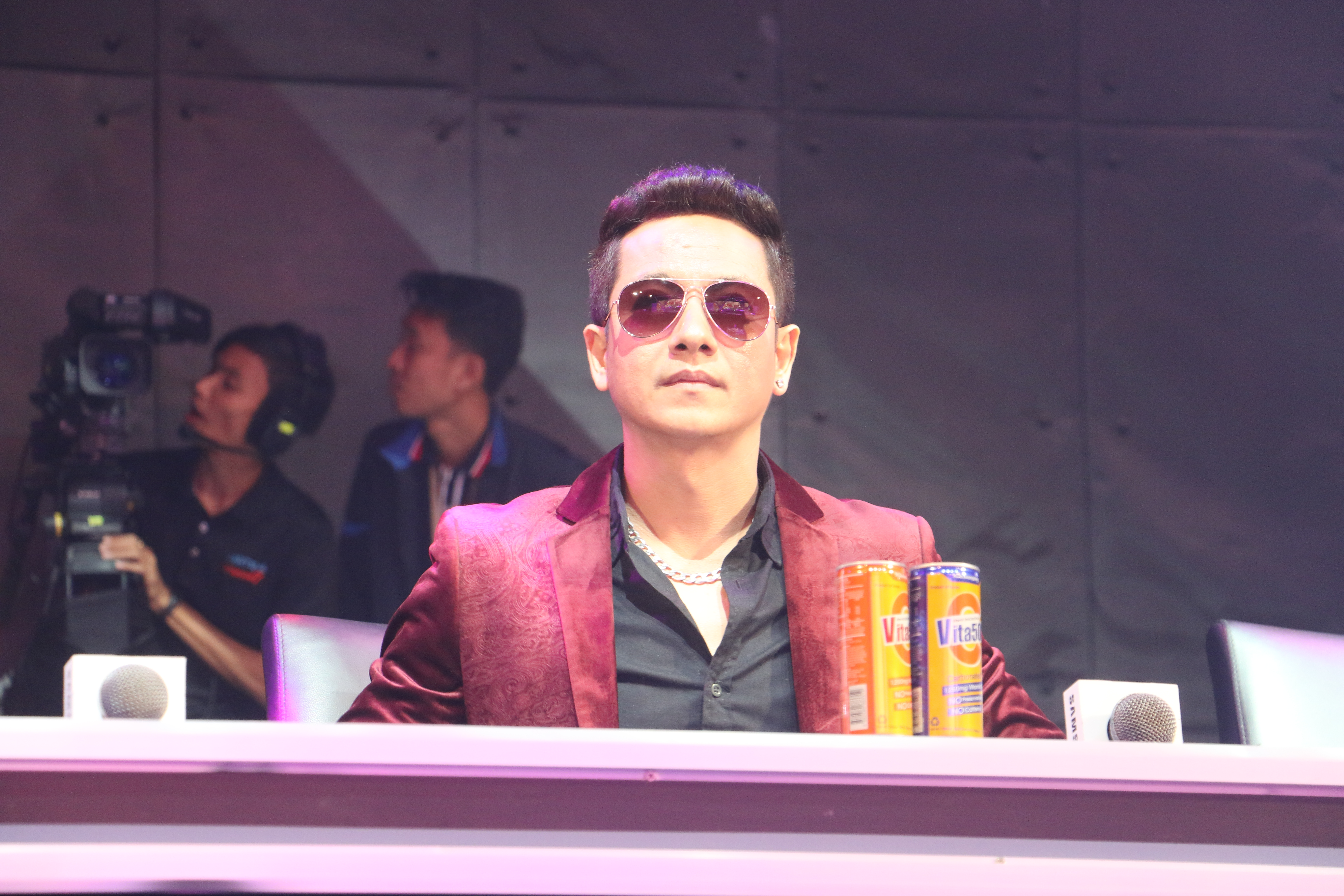 Galaxy Star 2017 Semi Final